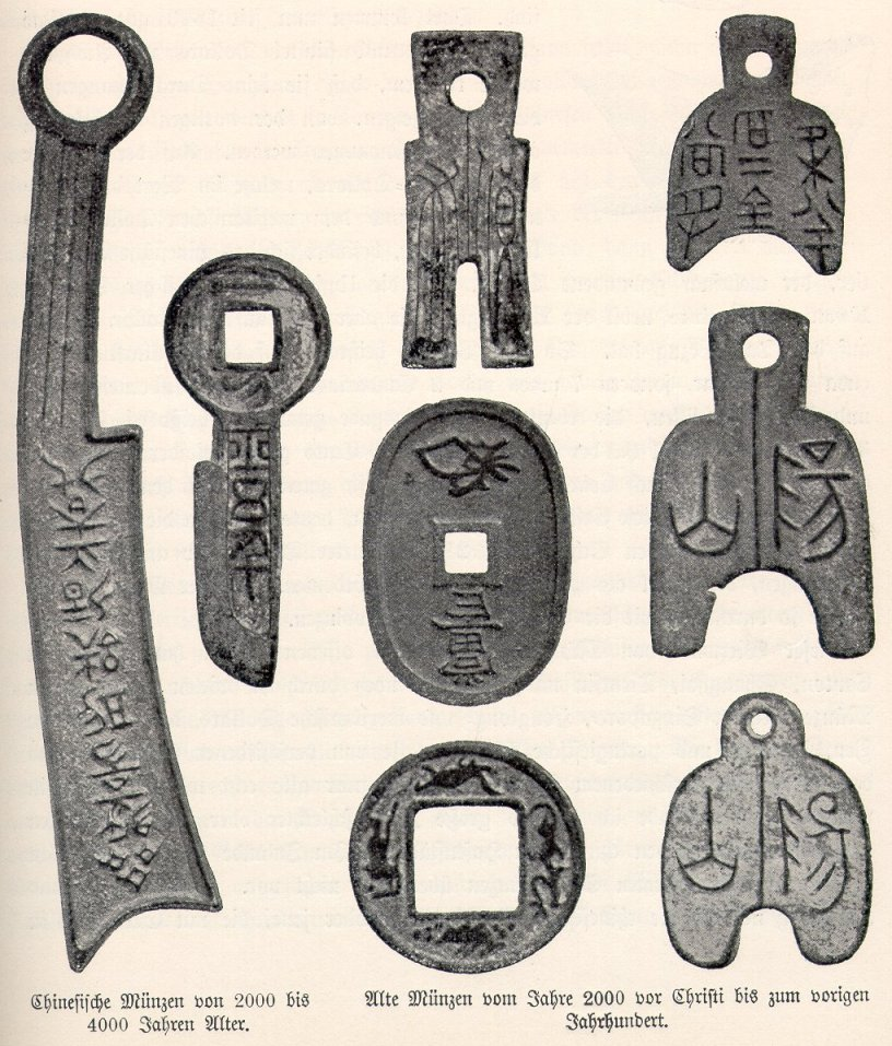 Ancient Chinese coins, one Japanese coin and one amulet. The coins illustrated here are all forgeries or fantasies.